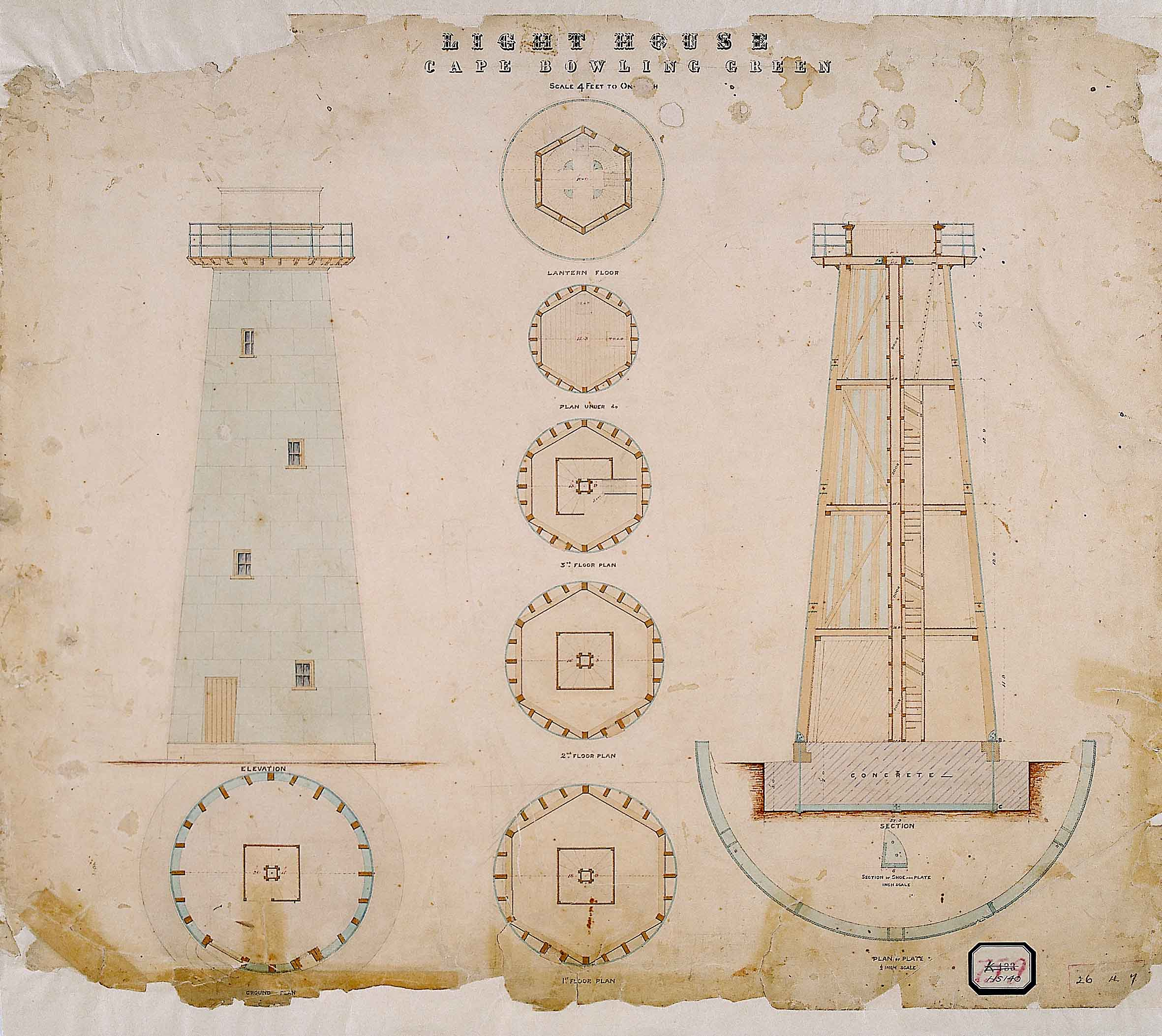 Cape Bowling Green Lighthouse, 1919